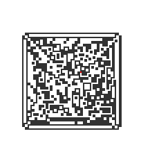 The turmite specified as {1, 8, 0}, {1, 2, 1 , 0, 2, 0}, {0, 8, 1 } shown at 223577 timesteps. This string is a curly-bracketed table of n_states rows and n_colors columns, where each entry is a triple of integers. The elements of each triple are: a) new color of the square, b) direction(s) for the turmite to turn: 1=noturn, 2=right, 4=u-turn, 8=left, c) new internal state of the turmite. For example, the triple {1,2,1} says: a) set the color of the square to 1, b) turn right (2), c) adopt state 1 and move forward one square.